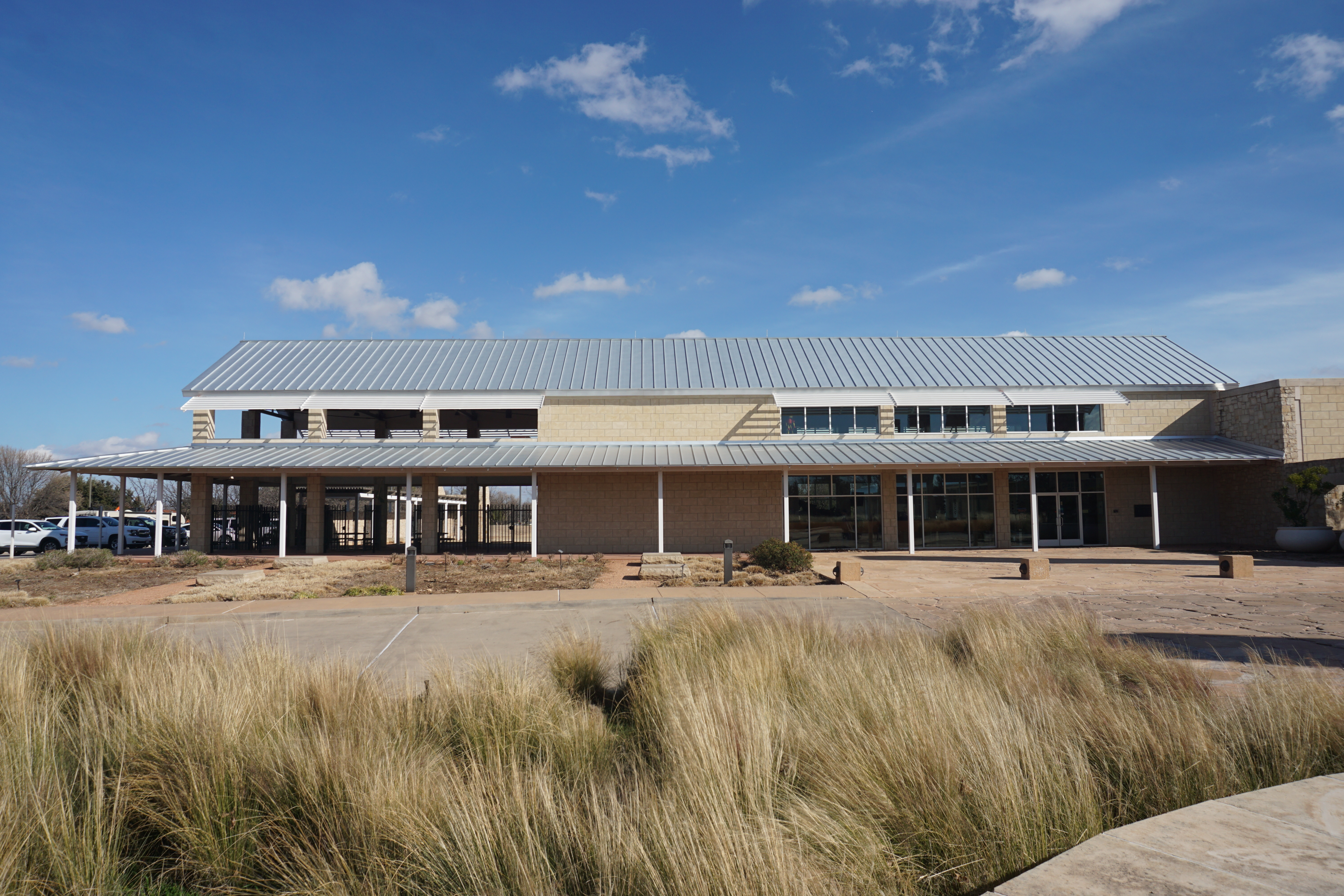 The exterior of Frontier Texas! in Abilene, Texas (United States).